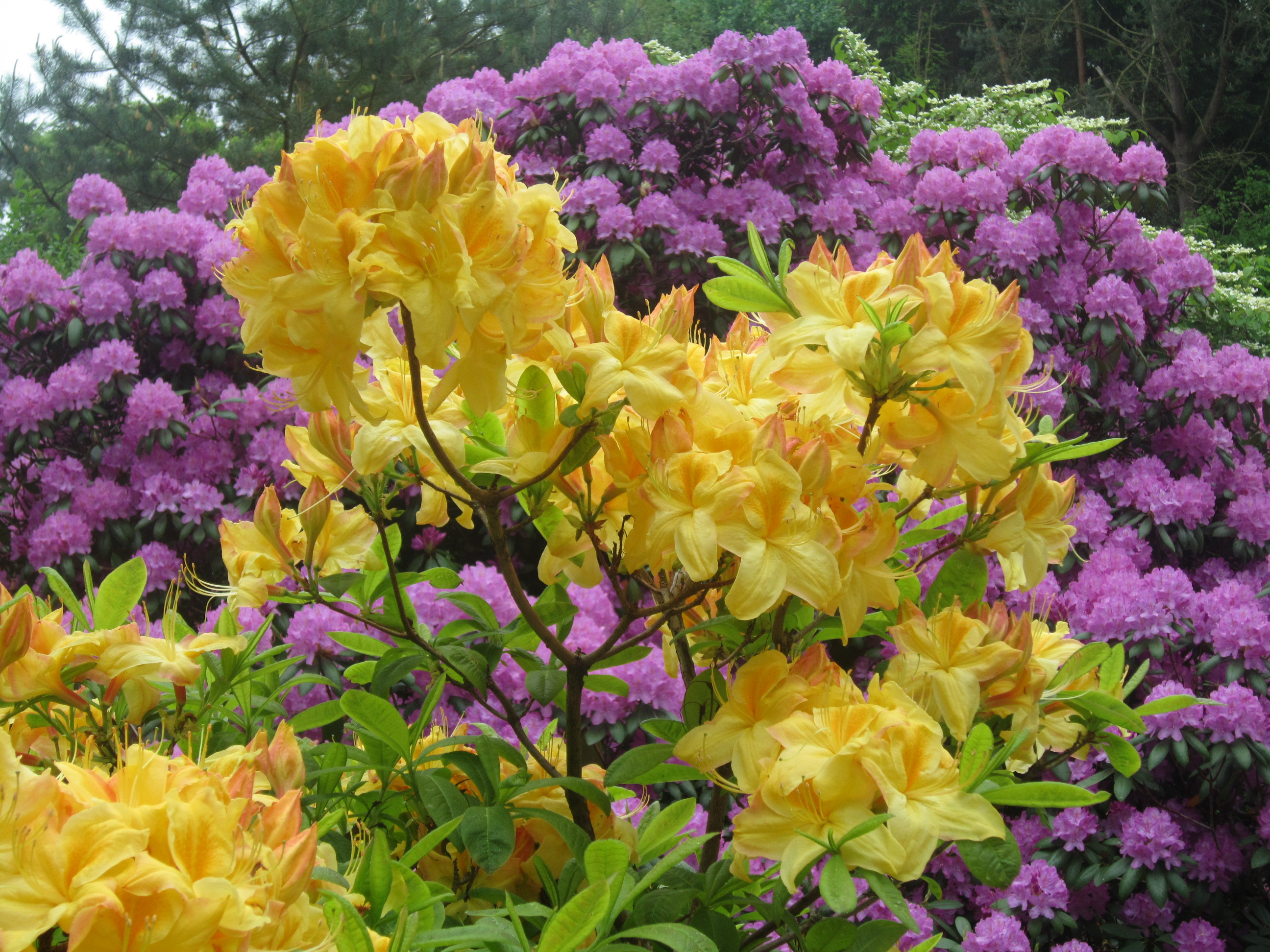 Rhododendron forest in Gristede (Landkreis Ammerland, Lower Saxony)